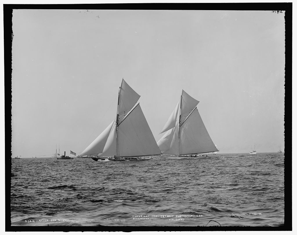 Peabody, Henry G.,, 1855-1951,, photographer. After the start [1893 Oct. 9], c1893. 1 negative : glass ; 8 x 10 in. Notes: "803" on negative. Detroit Publishing Co. no. 05412. Gift; State Historical Society of Colorado; 1949. Subjects: Vigilant (Yacht) Valkyrie II (Yacht) America's Cup races. Yachts. Regattas. Format: Dry plate negatives. Repository: Library of Congress, Prints and Photographs Division, Washington, D.C. 20540 USA Part Of: Detroit Publishing Company Photograph Collection (DLC) 93845504 Higher resolution image is available (Persistent URL): Call Number: LC-D4-5412